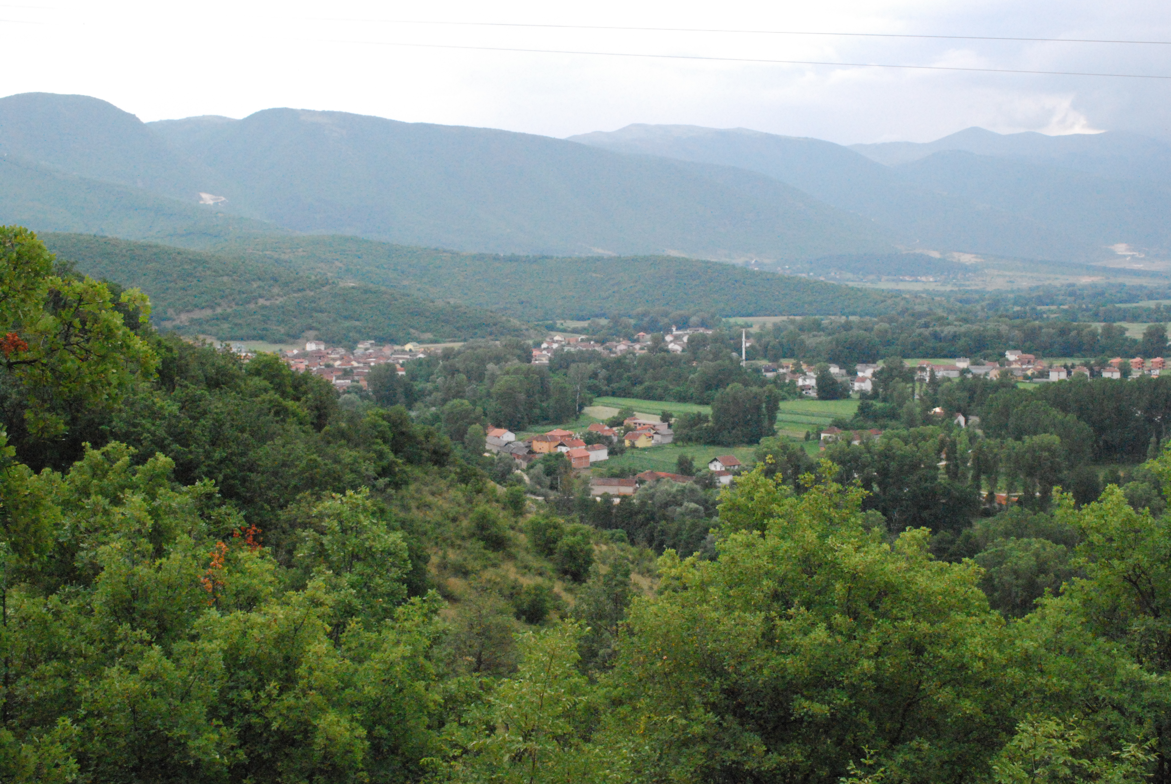 View on Tenovo, Tetovo, Macedonia